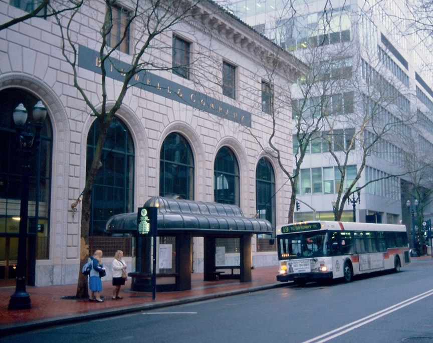 A TriMet bus on line 19-Glisan pulling up to the NE/Purple Raindrops sector bus stop on 6th Avenue just north of Stark Street, on the Portland Transit Mall, in the last week of service before a two-year closure of the mall for renovation and rebuilding to add MAX light rail tracks. This stop was in front of the historic Bank of California Building (built 1924–25), which at the time of the photo was lettered for Bidwell & Company, a stock-brokerage firm that had owned the building from late 1999 until 2004 and occupied it from late 2000 until 2004. The building was vacant at the time of the photo. The large bus-stop passenger shelter, dating from 1977, was removed soon after this. The comparatively modern office tower in the background is the "400 SW Sixth Avenue" building.